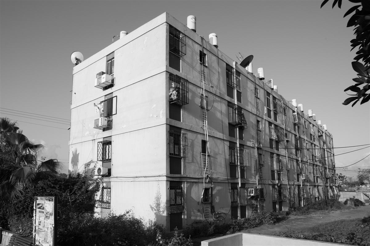 Public housing in Shapira neighborhood, 1 Misalant St. and 127-131 Kibutz Galuyot Rd., Tel Aviv-Yaffo, Israel.